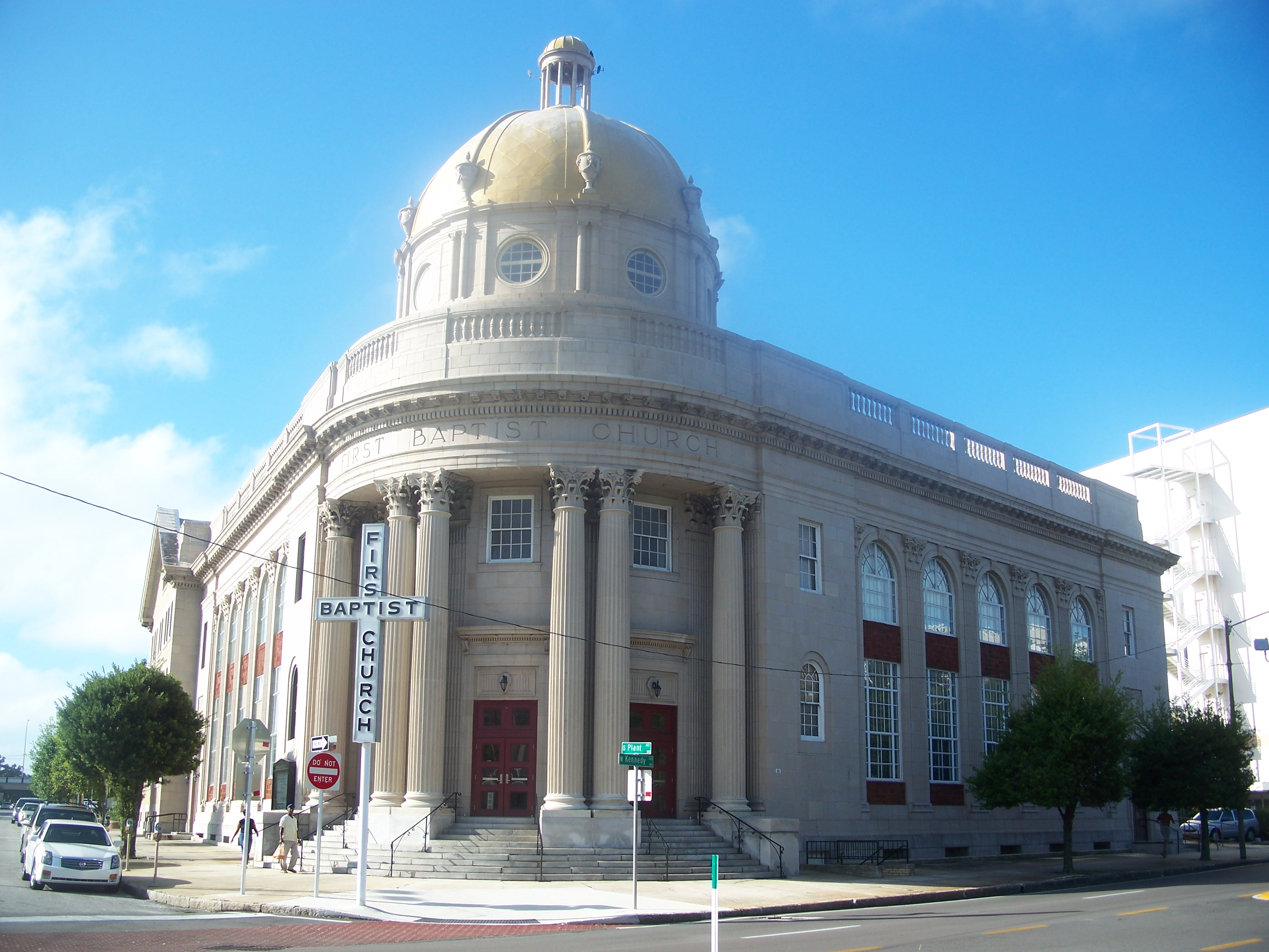 First Baptist Church of Tampa on Kennedy Boulevard, in Tampa, Florida